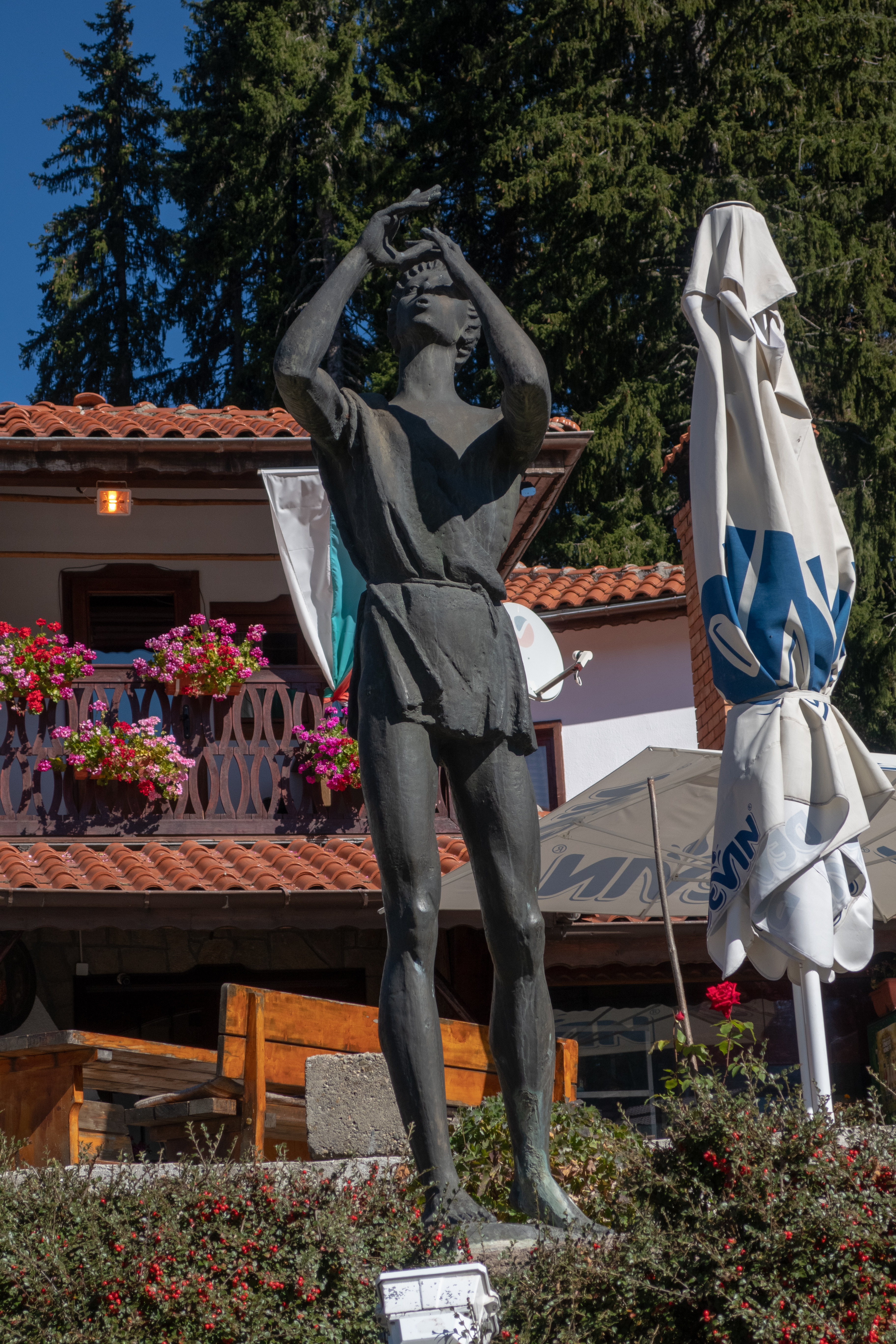 Pamporovo